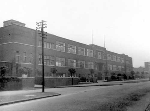 14th September 1937. In 1896, S. Harris began this business in Worth Place, he was joined in 1919 by his three sons. At that time the factory was on Cross Stamford Street and business had moved into the wholesale ready-to-wear trade. This new factory on York Road opened in 1934 employing 1,500 people. The company closed down in 1989. The building was demolished in 1993, the York Road Shopping Centre is on the site.